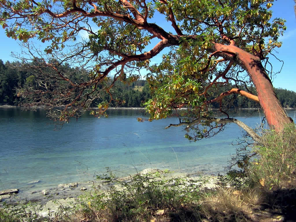 An arbutus tree on the Gray Peninsula in Montague Harbour Provincial Marine Park, Galiano Island, British Columbia, Canada.